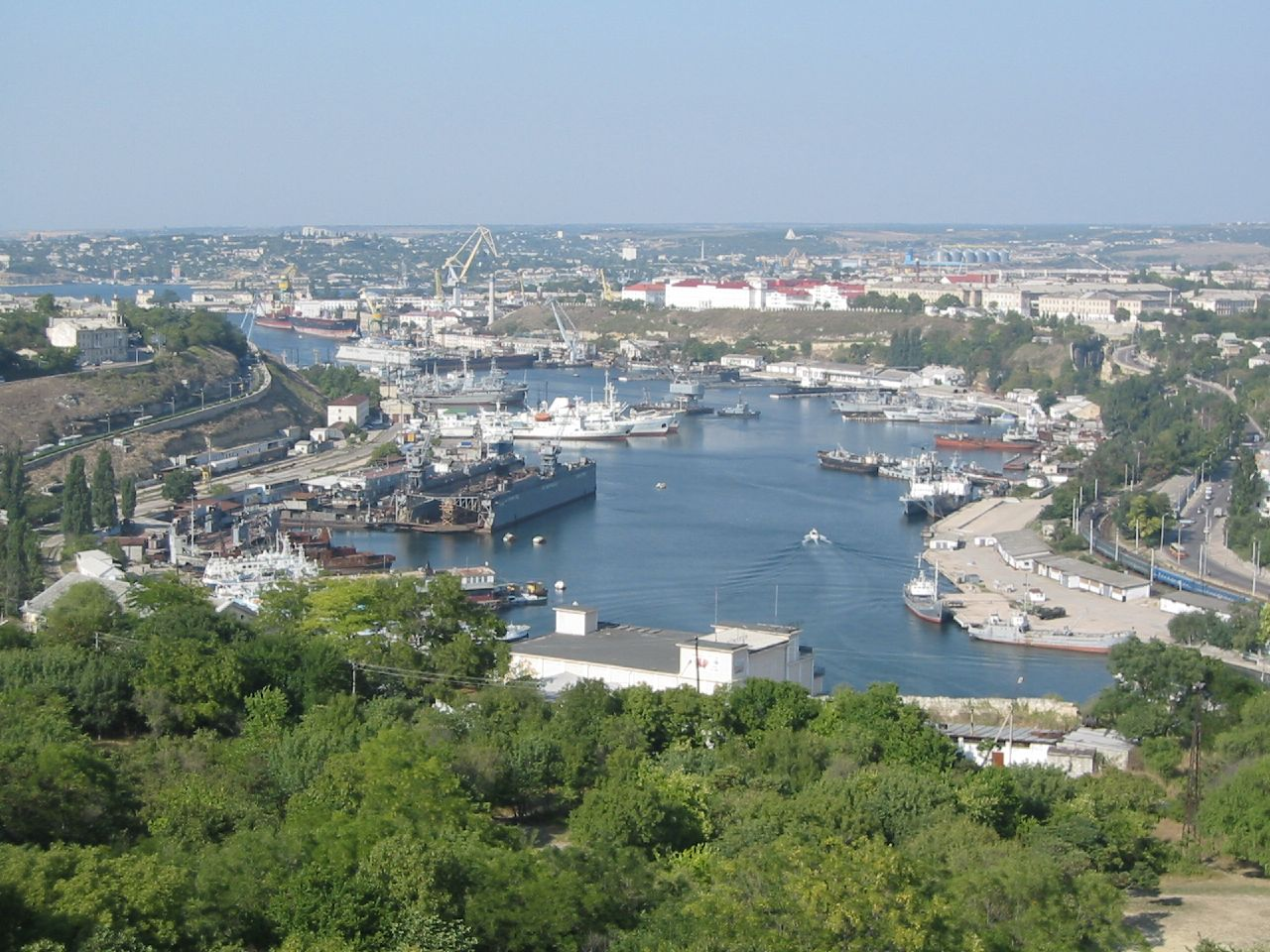 Sevastopol is a port city located on the Black Sea coast of Crimean peninsula. It has a population of 328,600 (2004). Former home of the Soviet Black Sea Fleet, the city is now a naval base of the Russian Navy.